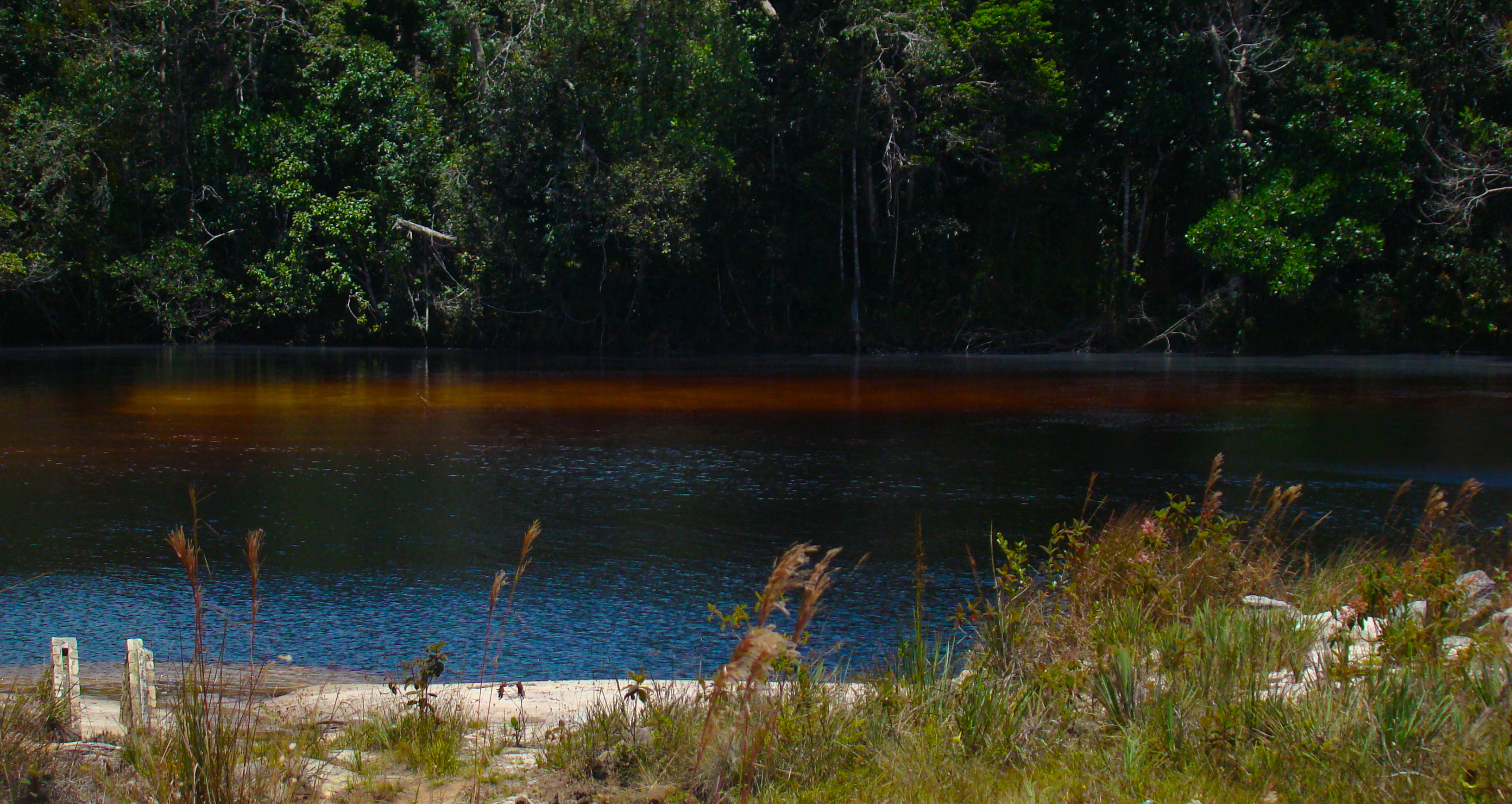 River in Canaima National Park, Venezuela.